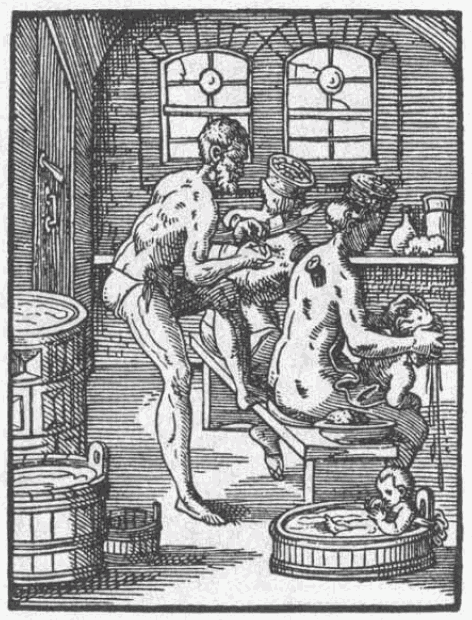 Eventful description of all classes auff earth , high and low , sacred and secular , of all arts , and handcraft affairs